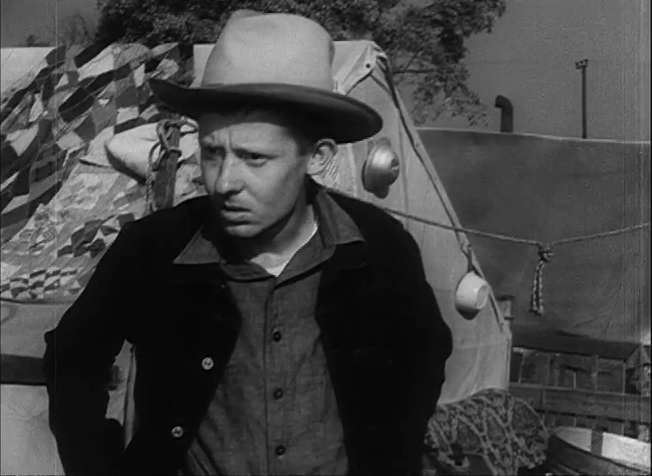 Trailer for the 1940 black and white film The Grapes of Wrath. O.Z. Whitehead as Al Joad.